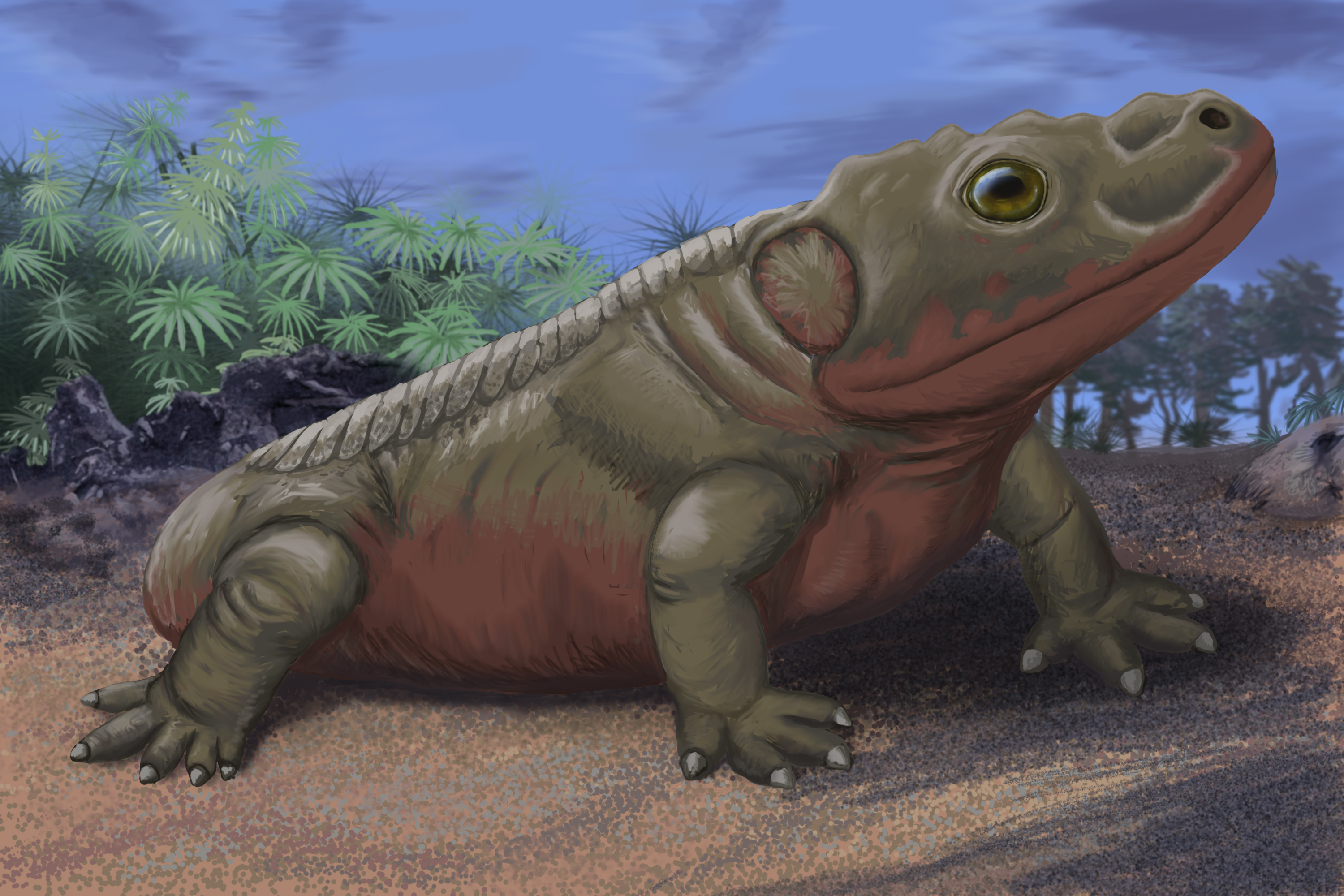 Life restoration of Broiliellus olsoni. Head based on Figure 4 of "Character distribution and phylogeny of the dissorophid temnospondyls" by Rainer R. Schoch (Fossil Record 15(2): 121-137). Body based on the postcranial skeleton of Broiliellus texensis, shown in Figure 3 of "Broiliellus, a new genus of amphibians from the Permian of Texas" by S. W. Williston (The Journal of Geology 22(1): 49-56).